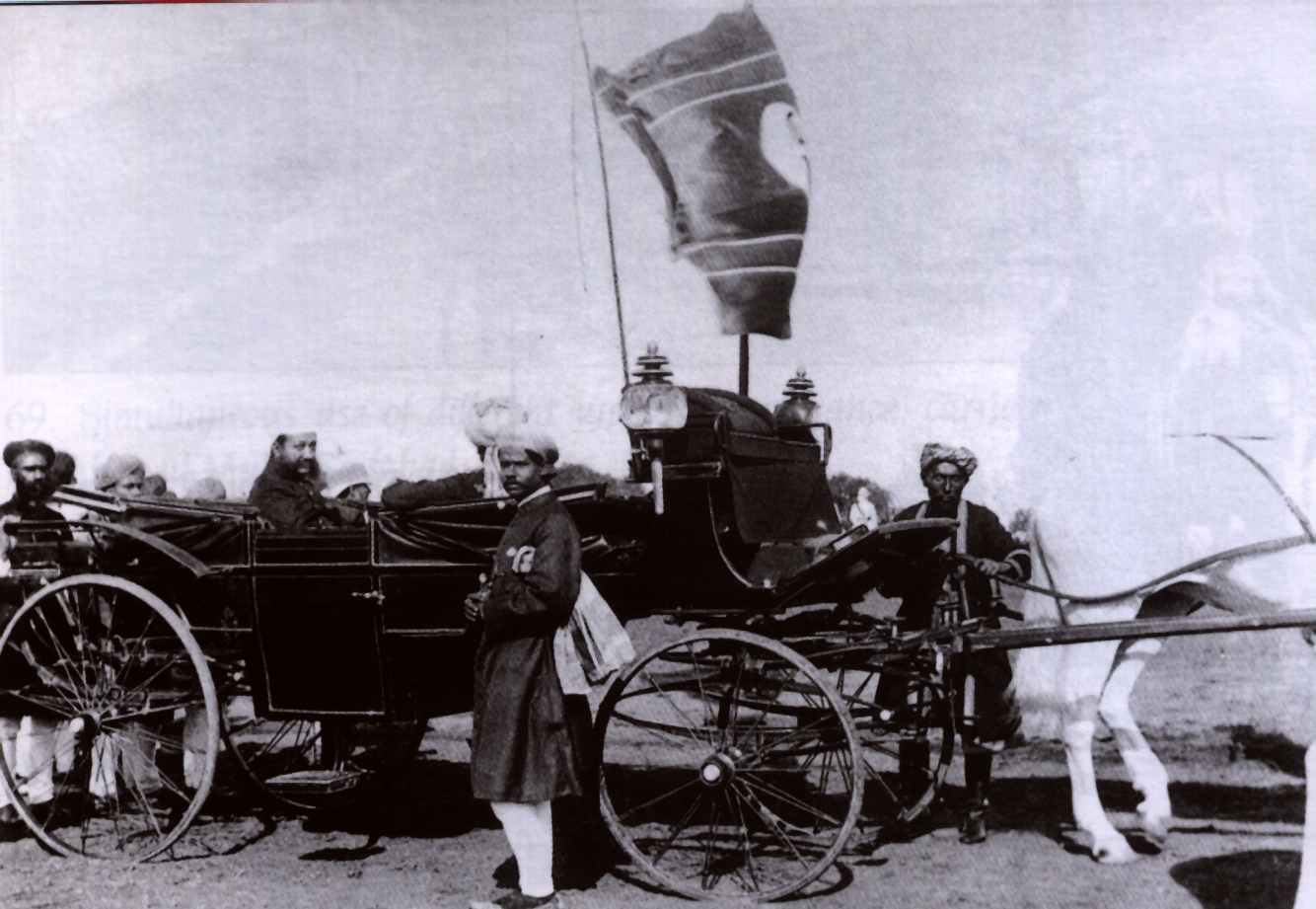 Viqar ul-Ulama, prime minister of Hyderabad state, in an open carriage, locally referred to as "buggy".